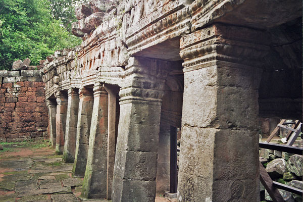 Banteay Kdei. Angkor. Cambodia